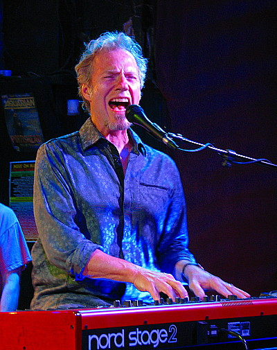 Randall Bramblett on keyboards at The Saint in Asbury Park, NJ in September 2013. Photo by LHCollins.